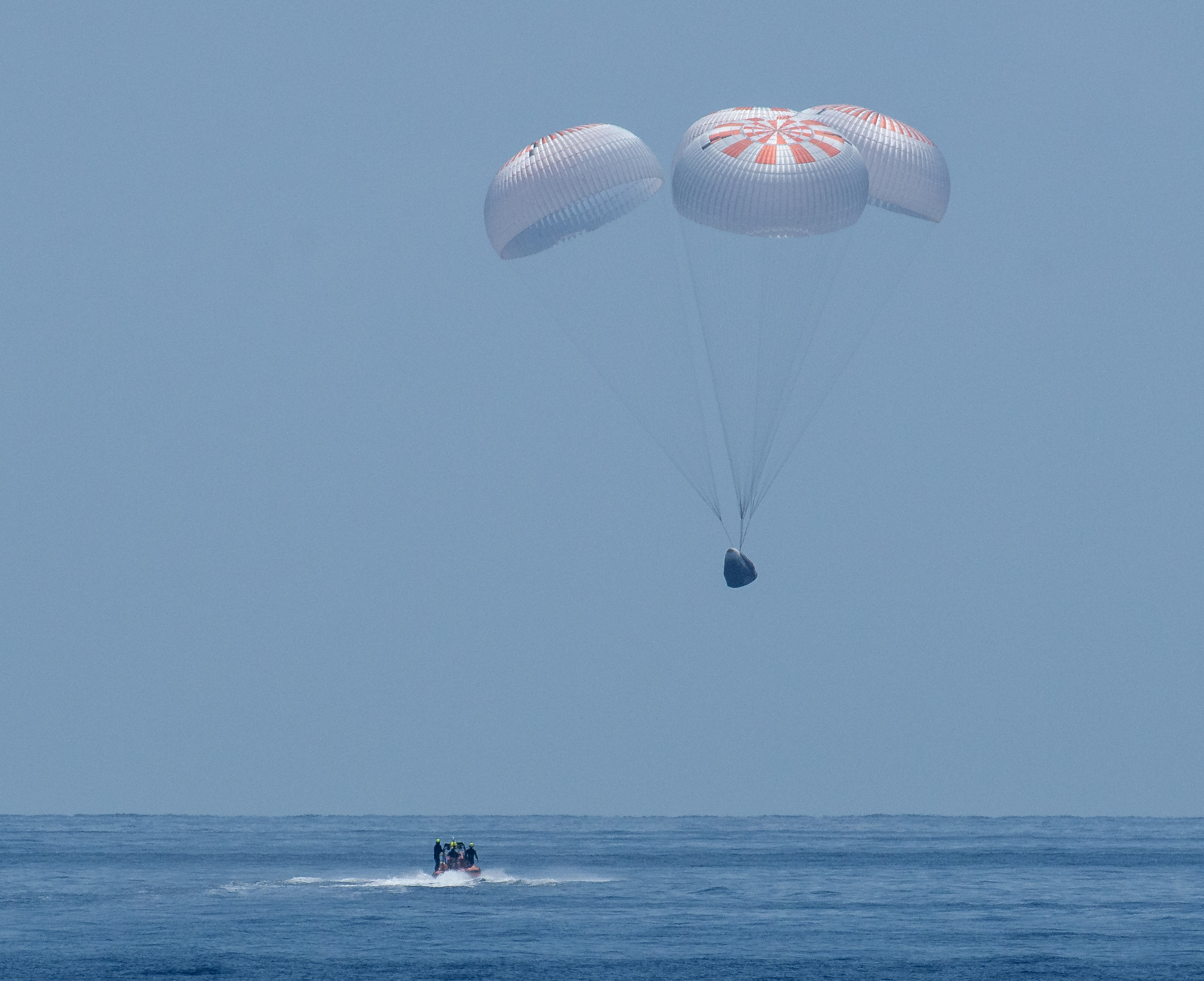 The SpaceX Crew Dragon Endeavour spacecraft is seen as it lands with NASA astronauts Robert Behnken and Douglas Hurley onboard in the Gulf of Mexico off the coast of Pensacola, Florida, Sunday, Aug. 2, 2020. The Demo-2 test flight for NASA's Commercial Crew Program was the first to deliver astronauts to the International Space Station and return them safely to Earth onboard a commercially built and operated spacecraft. Behnken and Hurley returned after spending 64 days in space. Photo Credit: (NASA/Bill Ingalls)